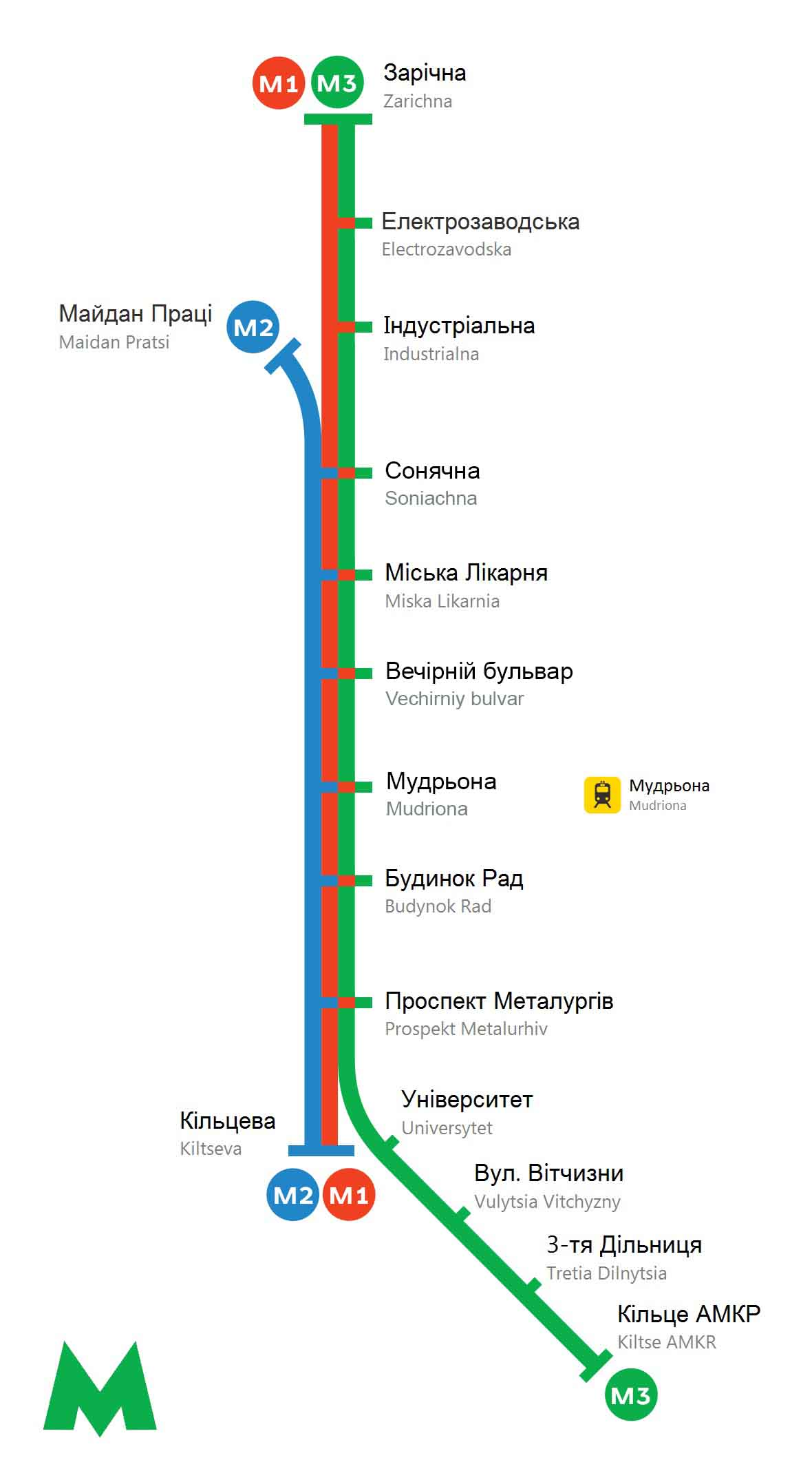 Metrotram Map